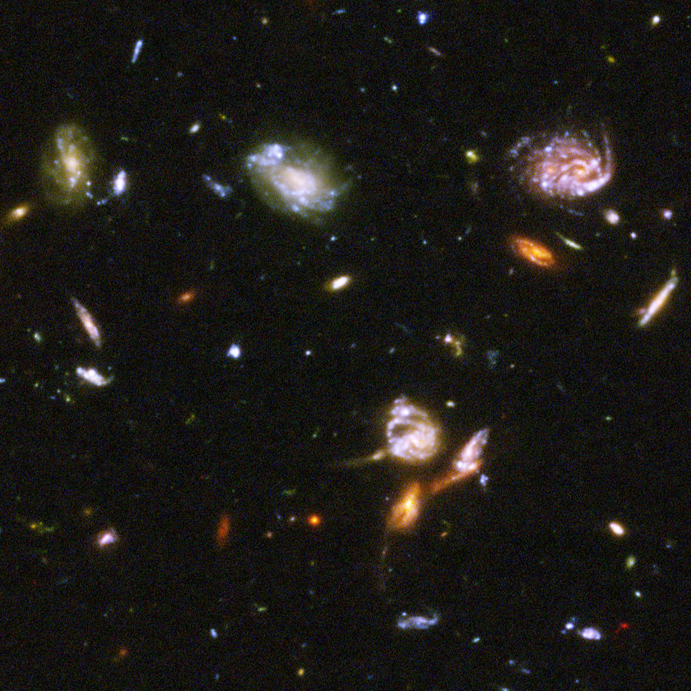 Part of the Hubble Ultra Deep Field. Even the brightest galaxies in this image have an apparent magnitude of 22.